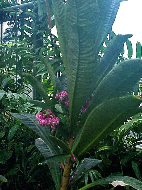 Name Hymenandra wallichii Family Myrsinaceae Image no. 3 Permission granted to use under GFDL by Kurt Stueber